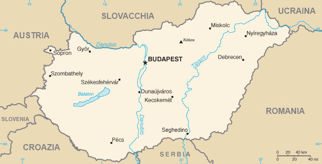 CIA political map of Hungary